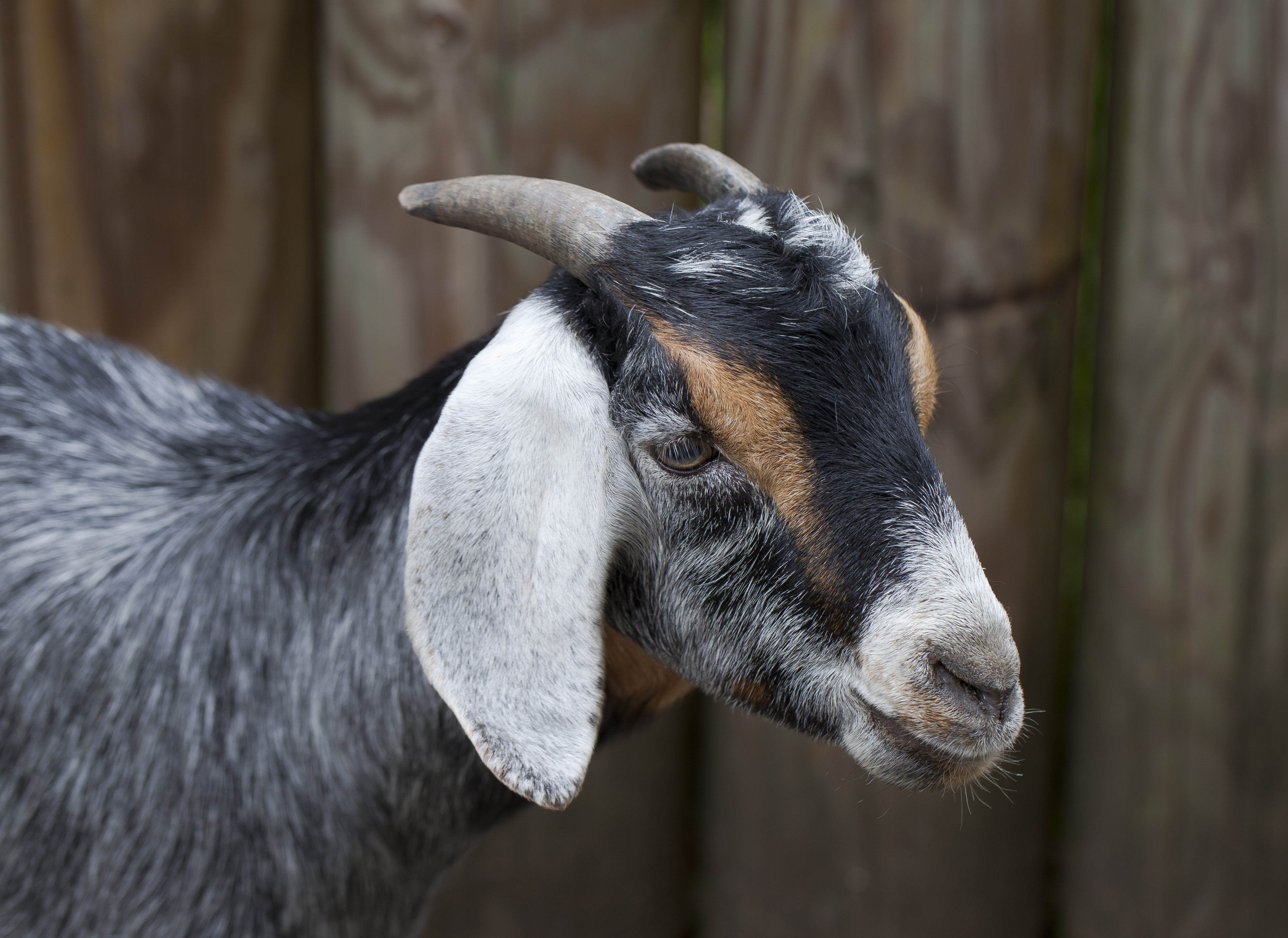 Tauernsheck, Tierpark Hellabrunn, Munich, Germany